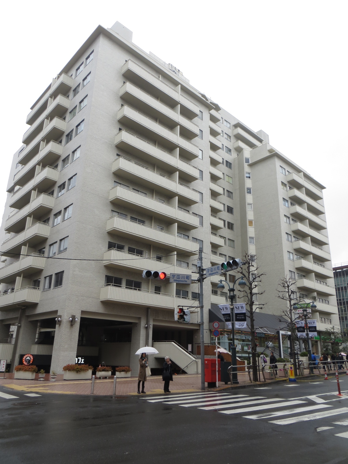 Shibuya Homes (Apartment of Shibuya). Shibuya, Tokyo.